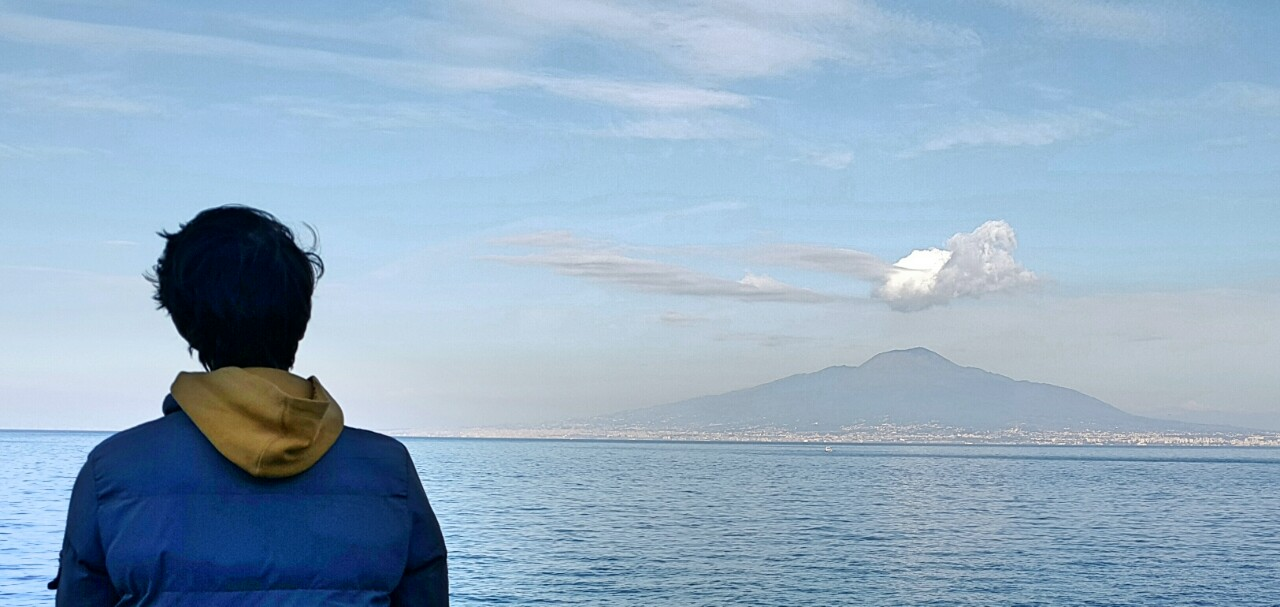 Young man gazing upon the scenery of mt. Vesuvius from Sorrento